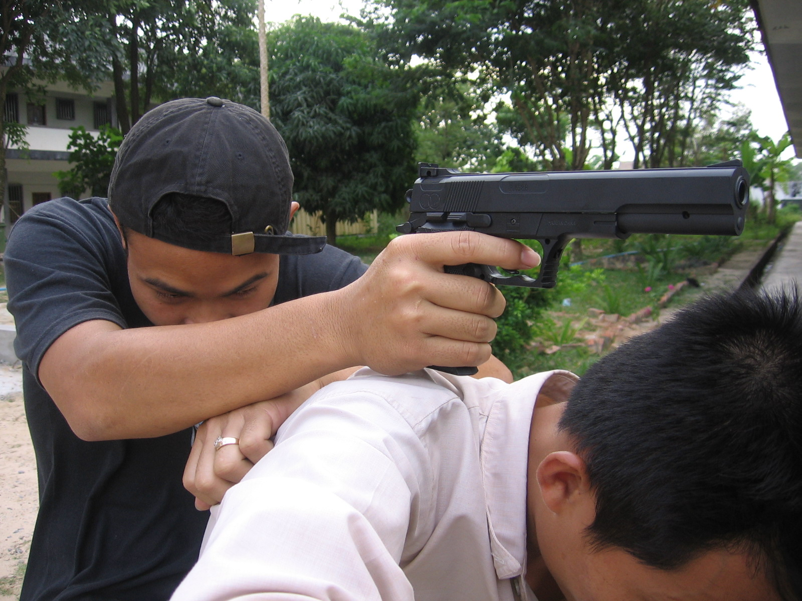 Two models representing young hired killers (sicarios).